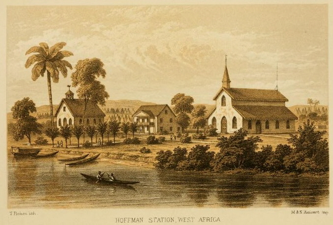 The Hoffman Missionary Station at Cape Palmas.